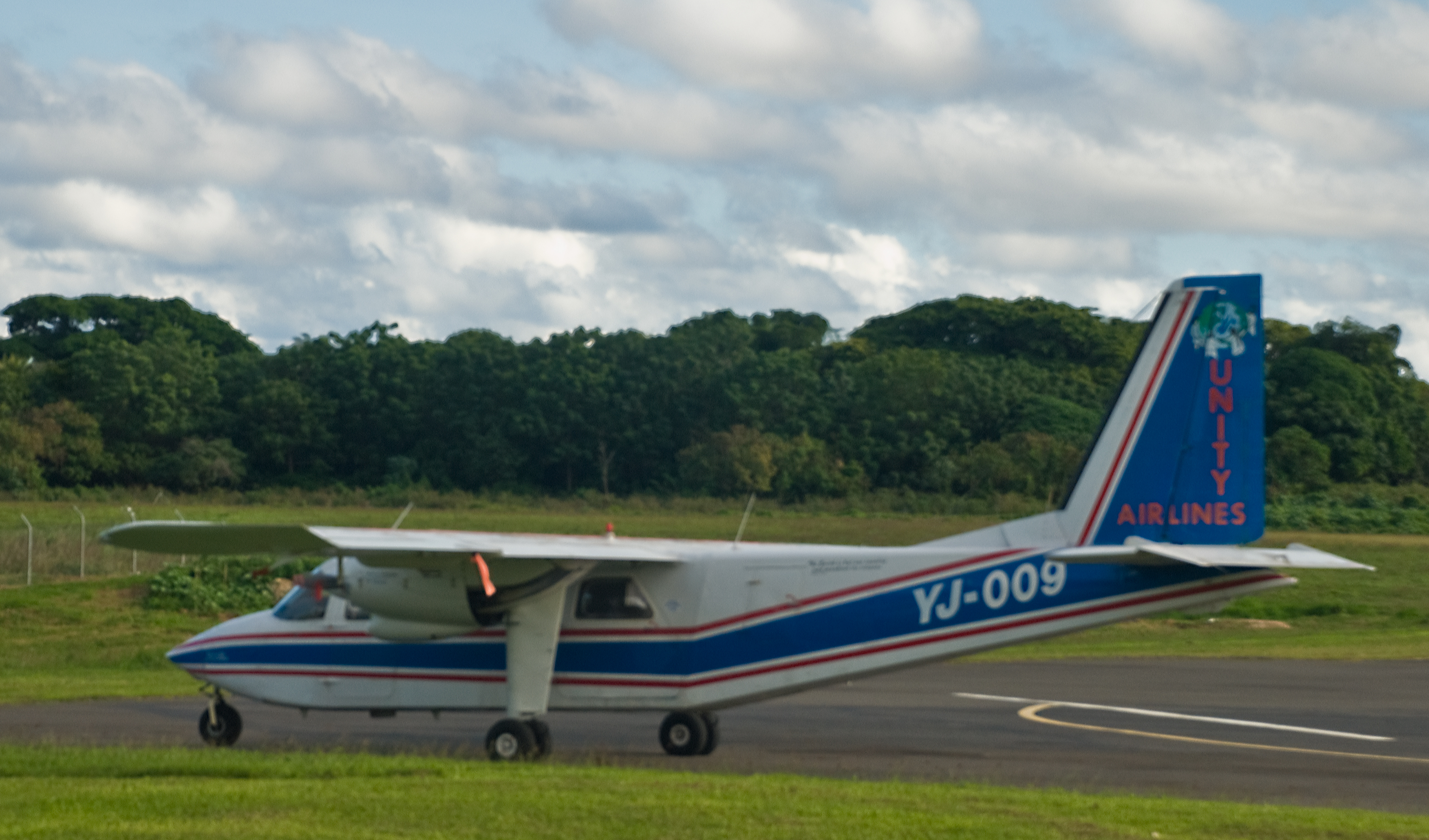 Unity Airlines Islander, Tanna, Vanuatu, June 2009